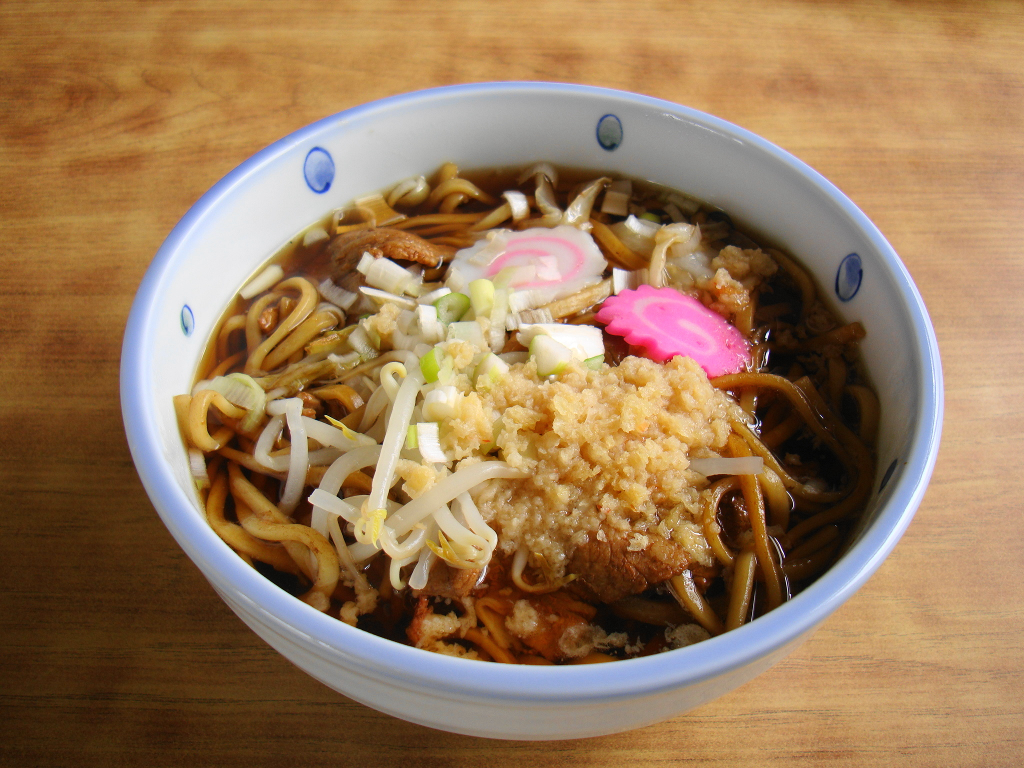 Tsuyu-Yakisoba